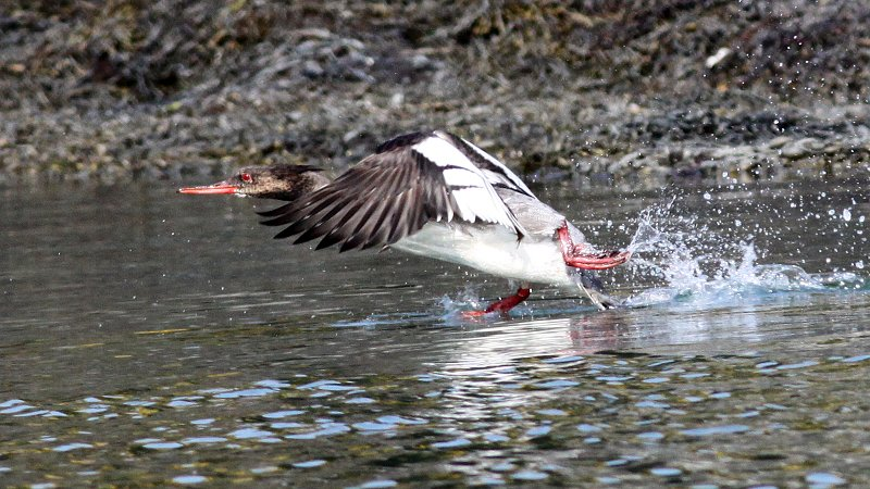 Red-breasted Merganser (Mergus serrator) This image was created by Ken Billington. If you are interested in a high resolution copy of this image, please contact the author Ken Billington in order to negotiate conditions of use. Do not copy this image illegally by ignoring the terms of the license below, as it is not in the public domain. If you would like special permission to use, license, or purchase the image please contact me to negotiate terms. More free images can be found on Ken Billington's Bird & Wildlife Photography.